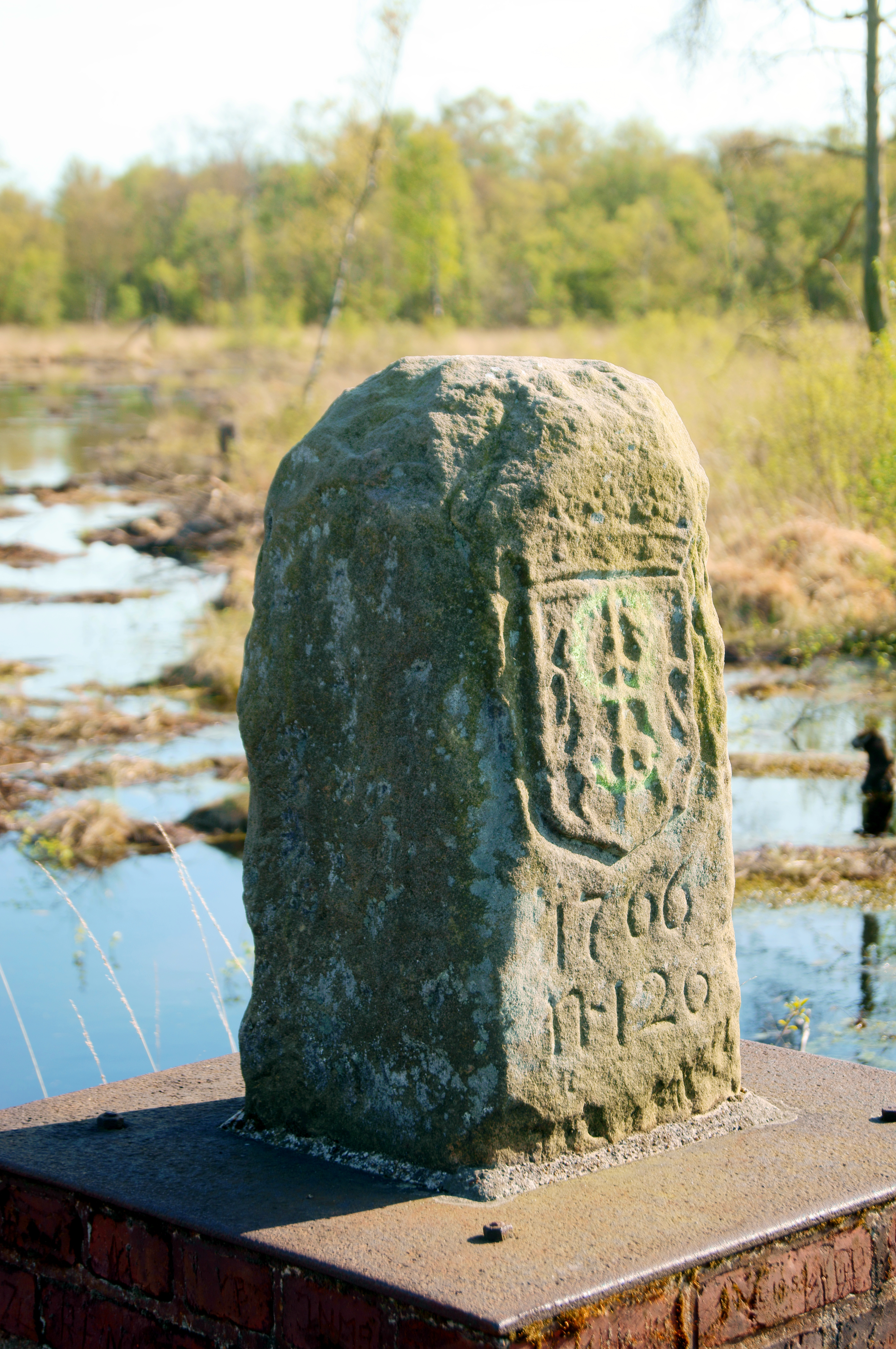 An old boundary stone from 1766 on the border between Germany and the Netherlands in the boglands called Wooldse Veen (NL) / Burlo-Vardingholter Venn (DE).